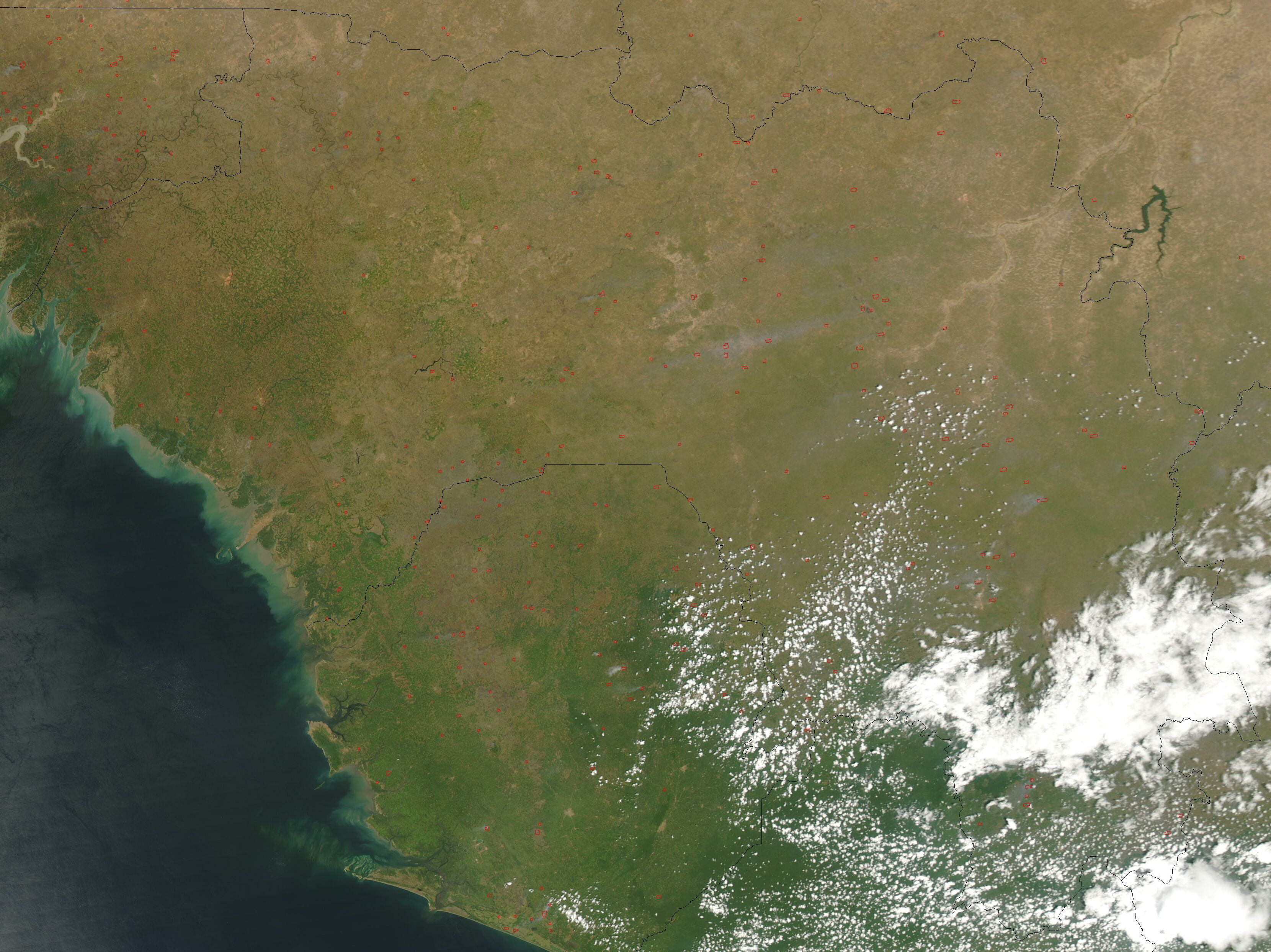 Satellite image of Guinea in February 2003.